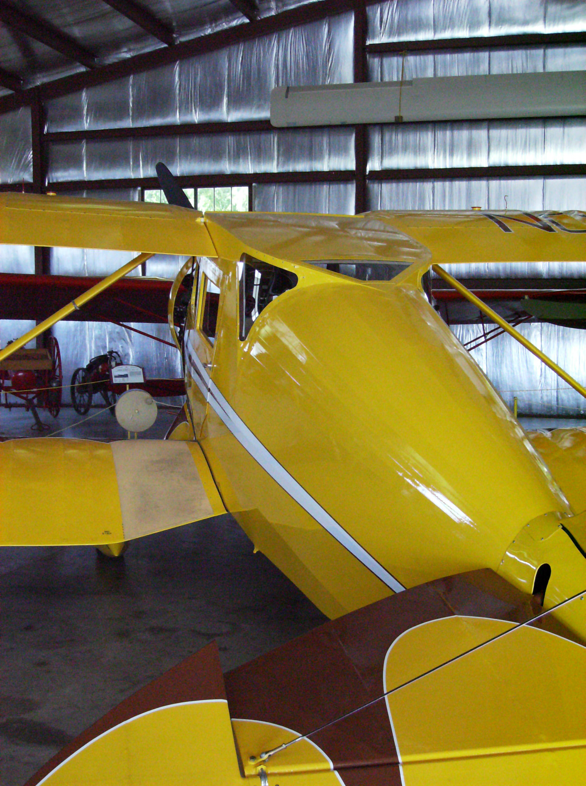 1932 Waco UEC an early C series Standard Cabin biplane (NC12472) in the EAA AirVenture Museum hangar in Oshkosh, Wisconsin showing the distinctive rear view window used on the earliest Waco cabin biplanes.